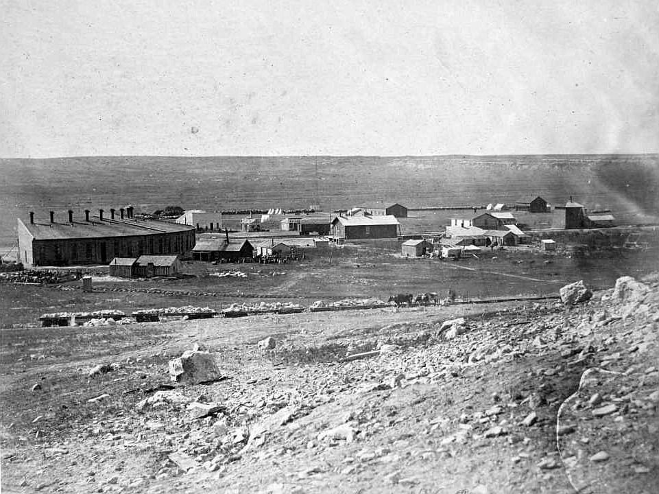 Sidney, Nebraska.